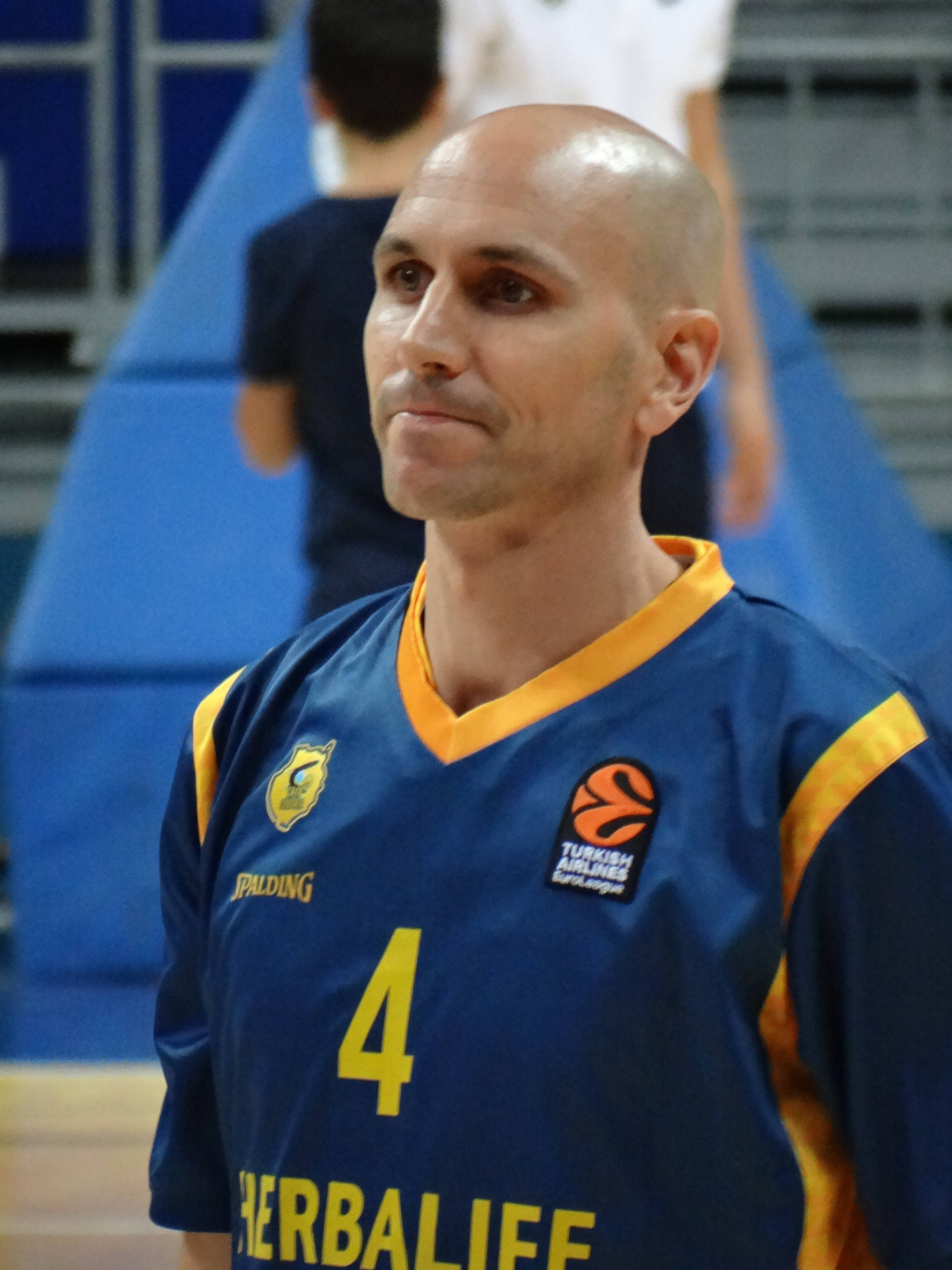 Albert Oliver 4 CB Gran Canaria EuroLeague 20181012